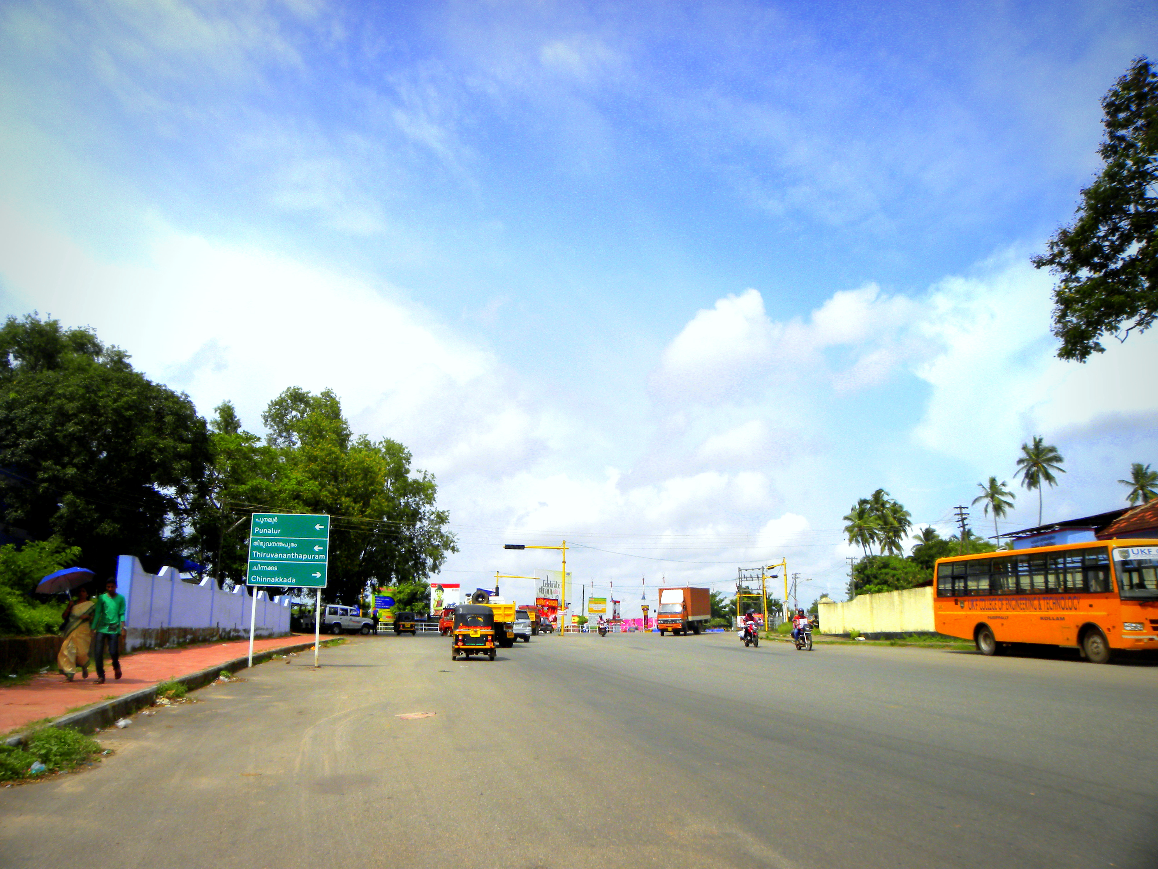 Link road of Kollam connecting Kappalandimukku with KSRTC Junction. Second phase of this road is under planning stage that is supposed to connect KSRTC Junction with Thoppilkadavu.